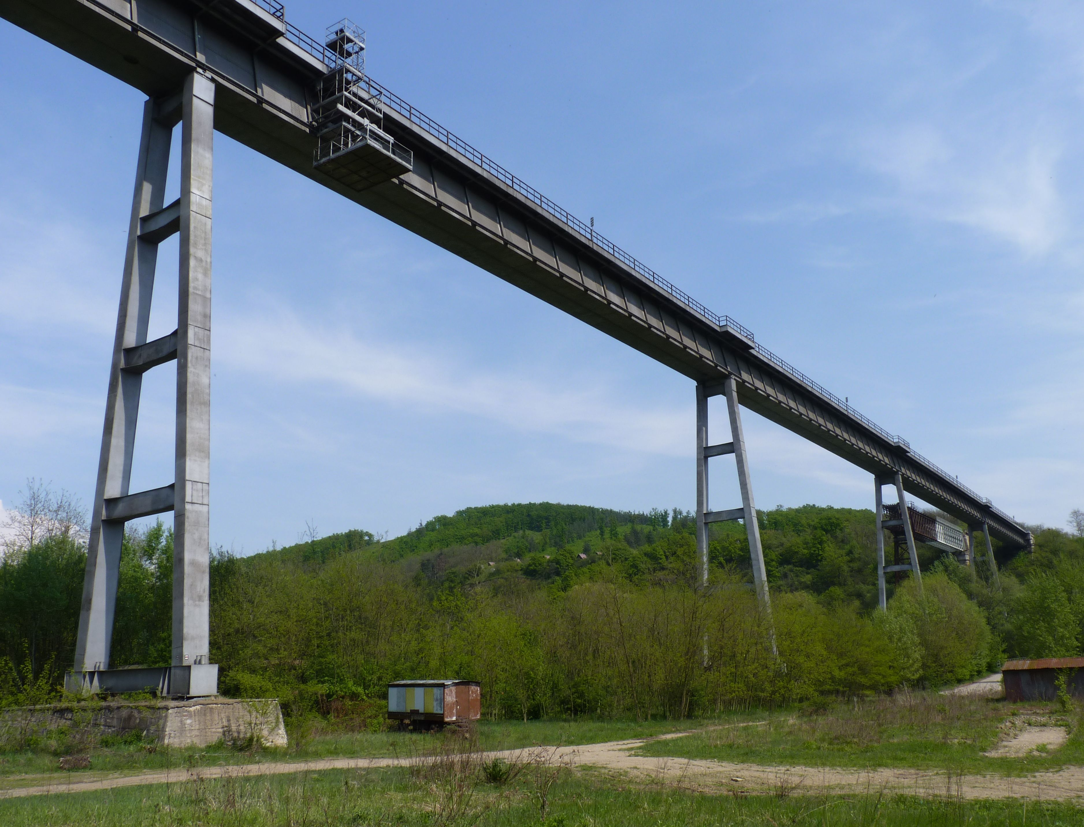 Ivančice Rail Bridge, Brno-Country District, South Moravian Region, Czech Republic